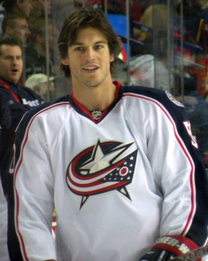 Columbus Blue Jackets forward Antoine Vermette prior to a National Hockey League game against the Calgary Flames, in Calgary.